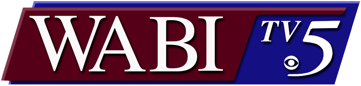 This is the official logo of the television station WABI-TV.